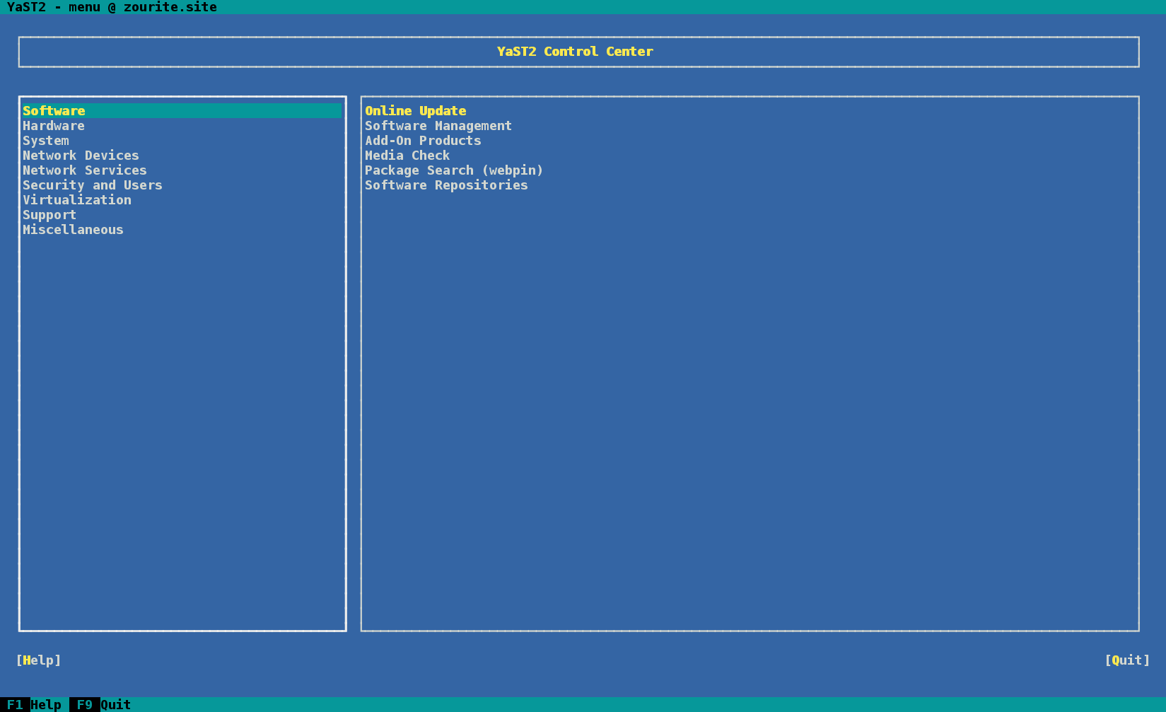 Yast command-line interface on openSUSE 12.1